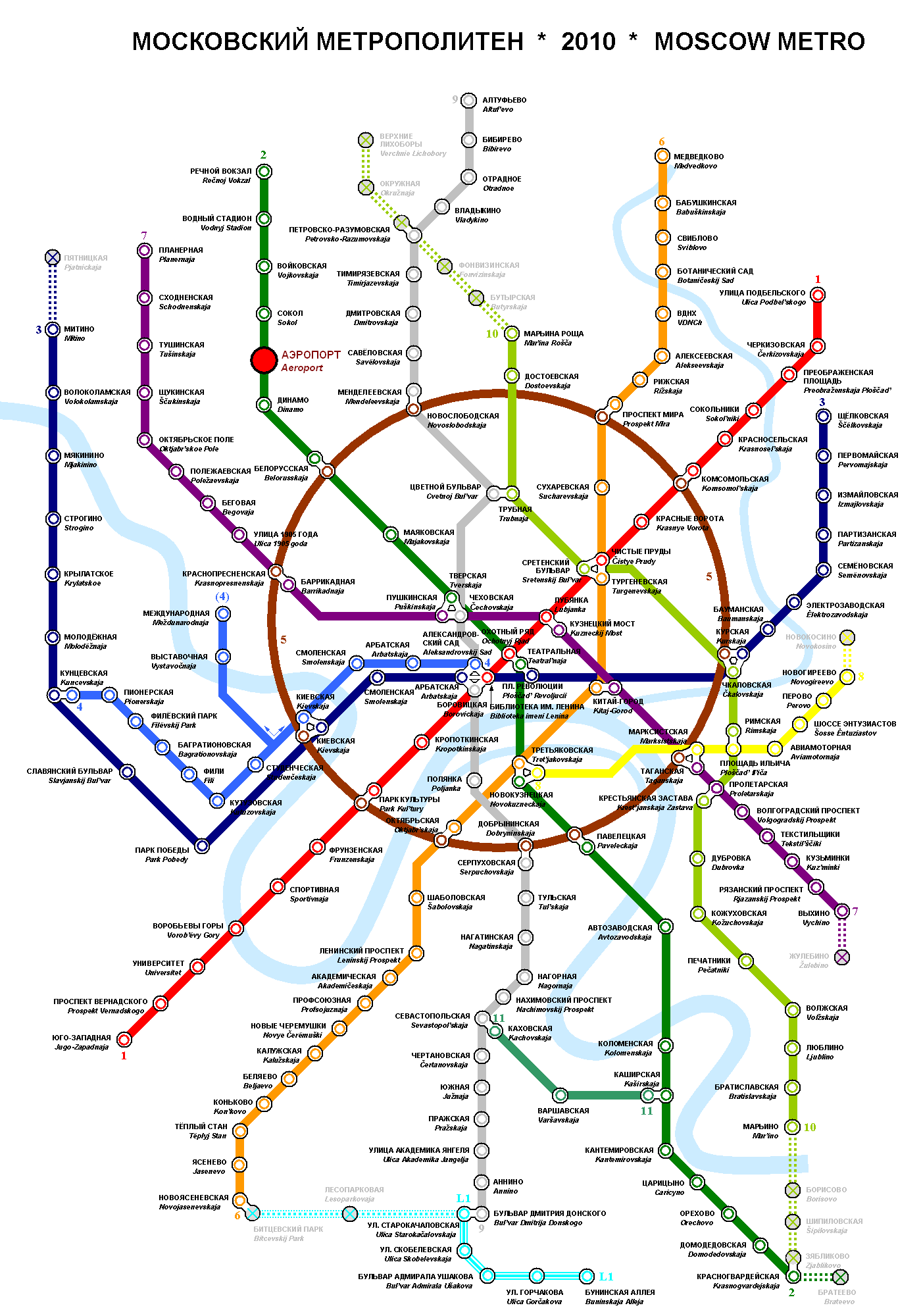 "Aeroport" station on the Moscow metro map